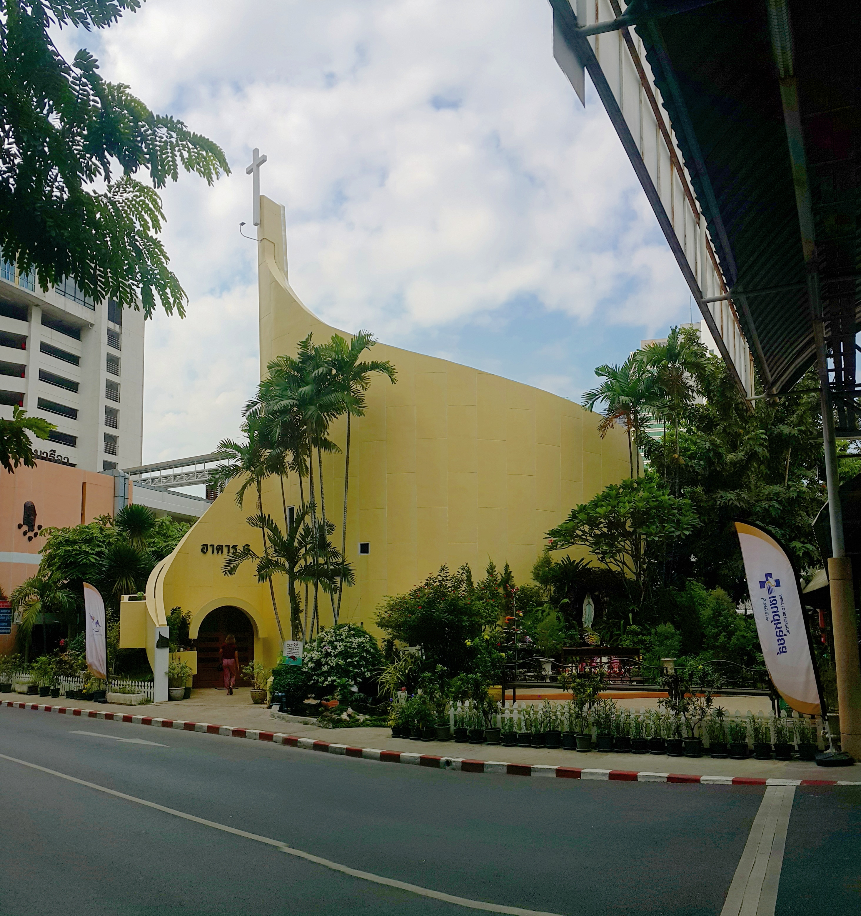 Holy Spirit Chapel of St. Louis Hospital Bangkok วัดร้อยพระจิตเจ้า โรงพยาบาลเซนต์หลุยส์